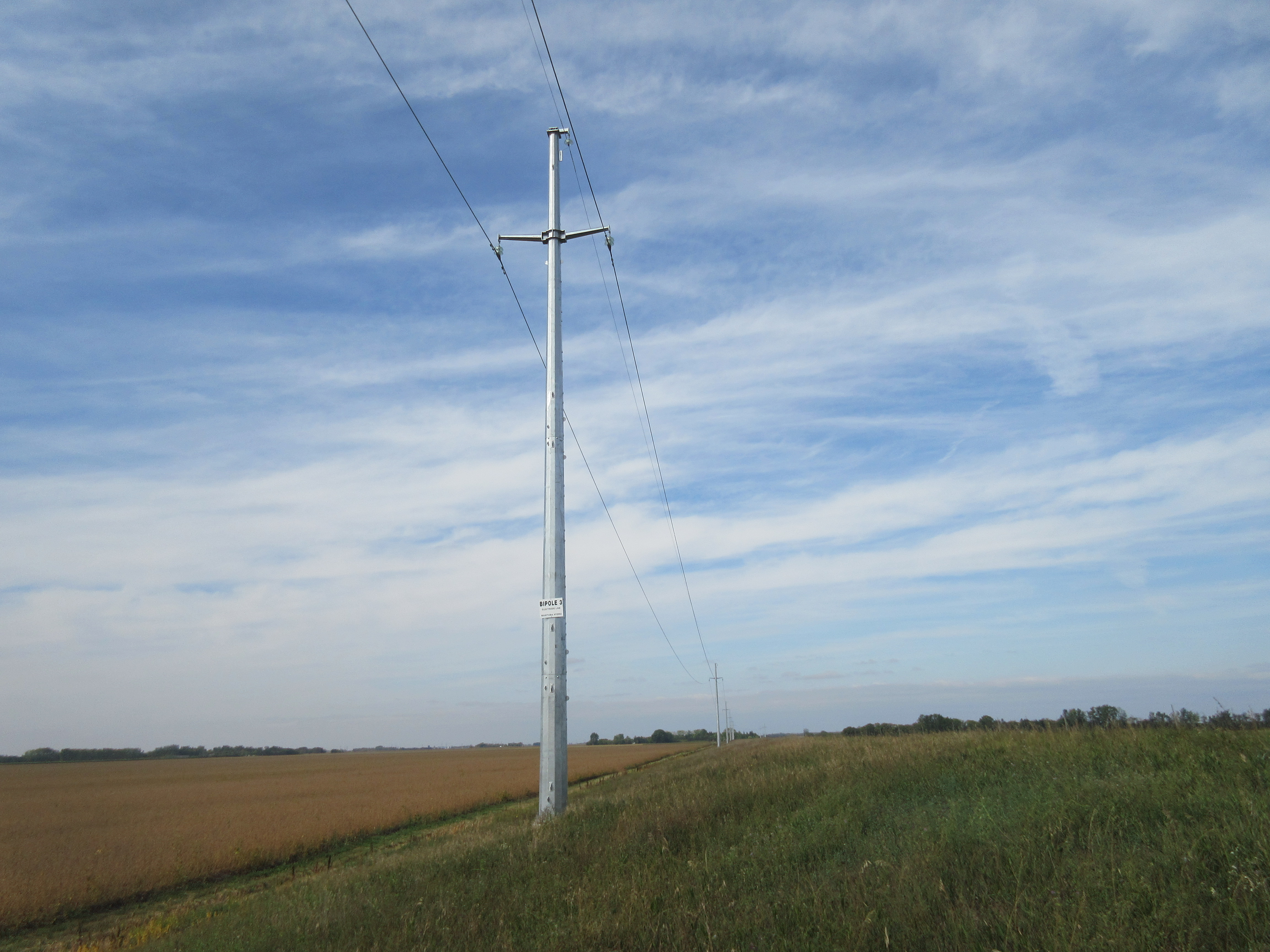 Nelson River DC Transmission System: Part of the Manitoba Hydro High-Voltage DC Bipole III electrode ground line, west side of Highway 206, north of Dugald, Manitoba. Normally this carries only a small unbalance current but if one of the 500 kV legs of the main transmission line is out of service, the other leg can operate in monopole mode, with this line carrying ground return current to a buried electrode near Hazelridge, Manitoba.